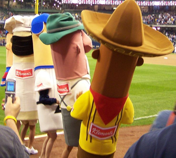 Start of the Sausage Race at Miller park on Monday April 30th, 2007. Photo taken with a Kodak z650.